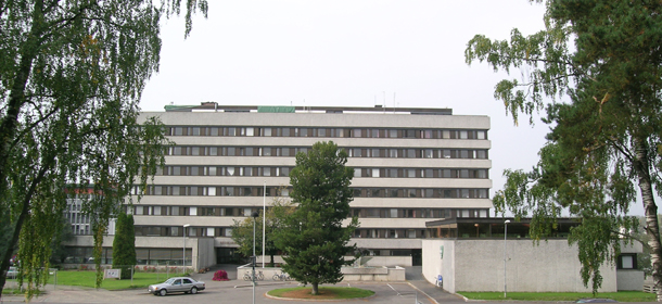 Hedmark fylkeshus (Hedmark county council hall), Hamar, Norway.